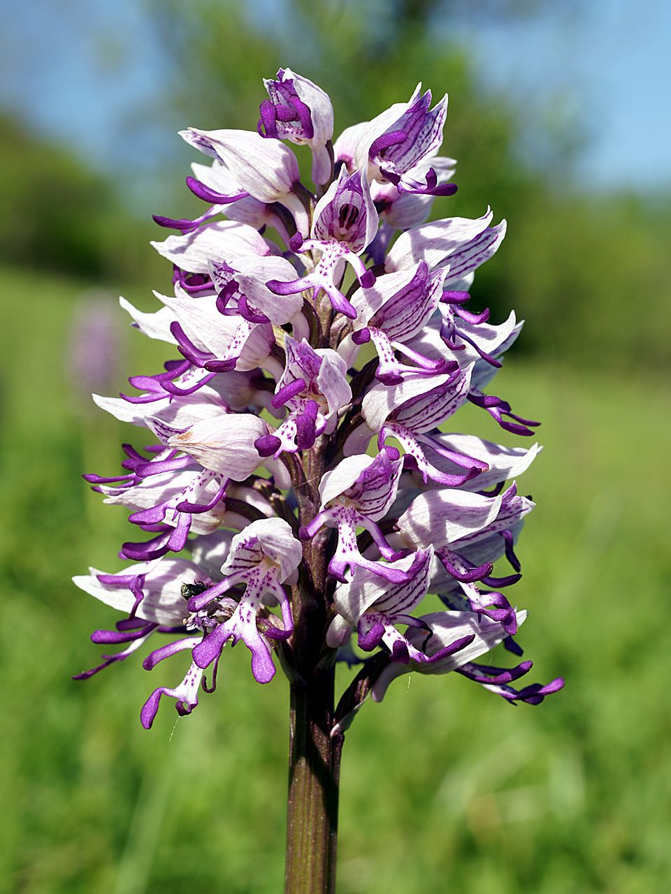 Orchis militaris - flowers